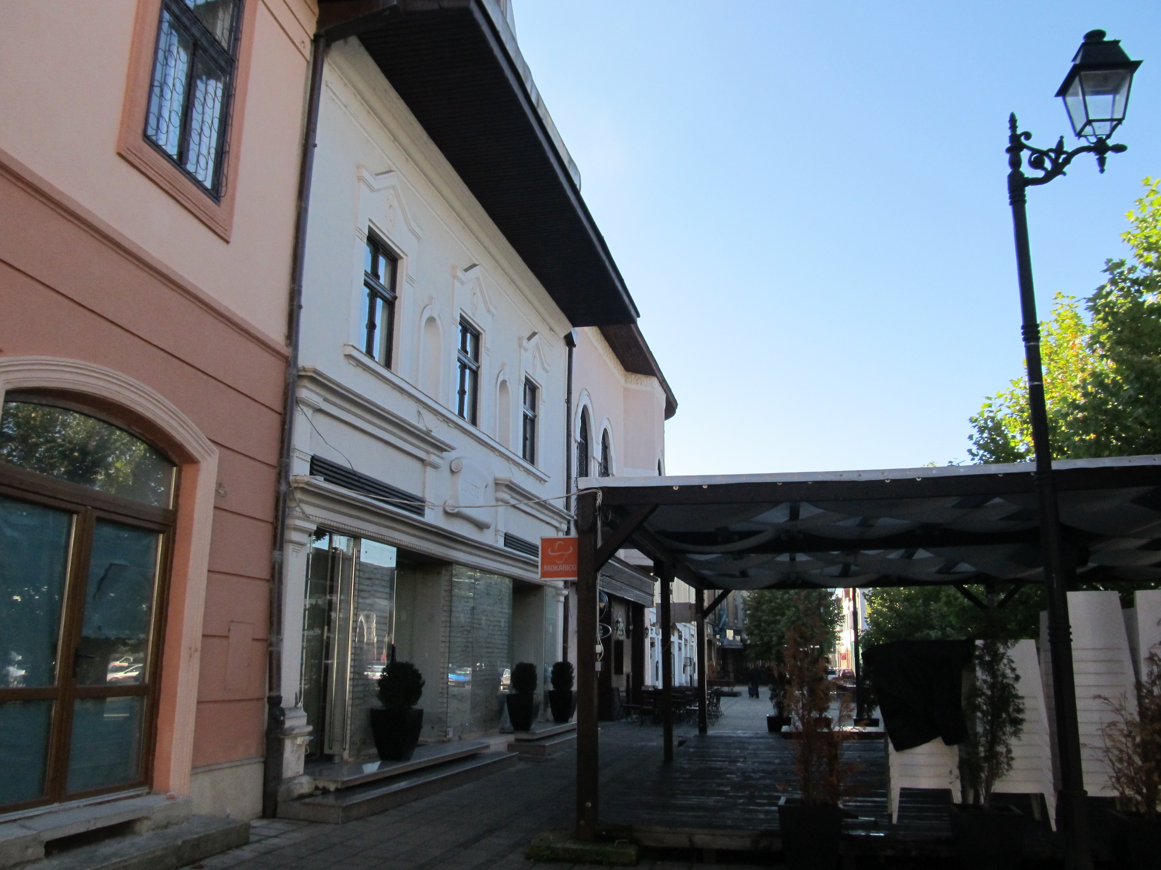 House in the historic center of the city of Baia Mare, Maramureș county, Romania.